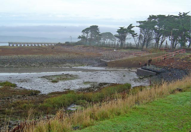 View of old Yelland Power Station site on estuary of R.Taw in N.Devon. The coal fired power station was opened on the 21st August 1955. Fuel was obtained from coalmines in South Wales and transported across the Bristol Channel by ship to the jetty; seen in the background and which was specially constructed for the power station. Due to the closure of the mines in the 1980s, coal would have been too expensive to obtain from other parts of the country and therefore it was more economic to close the power station.The area is now a favourite place for walkers and birdwatchers.